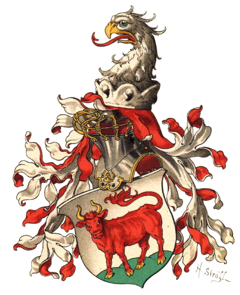 Coat of Arms of Lower Lusatia